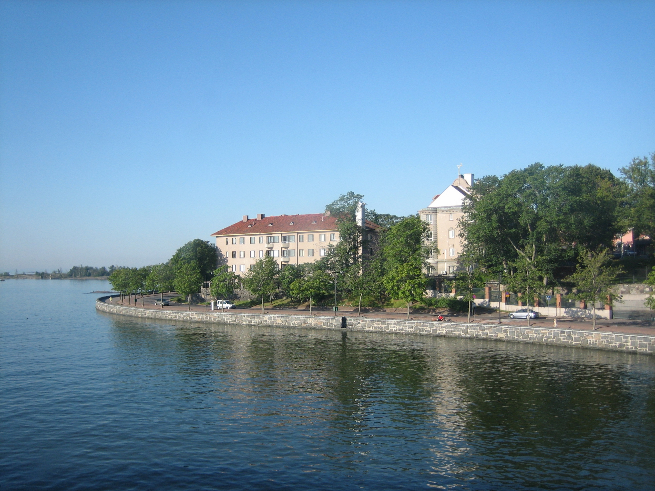 Residences of Kaivopuisto as seen from the sea